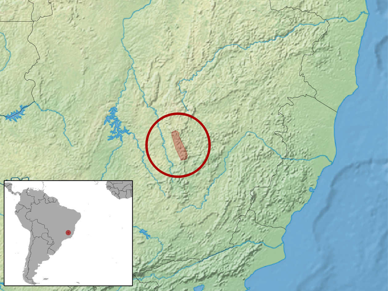 geographic distribution of Trinomys moojeni